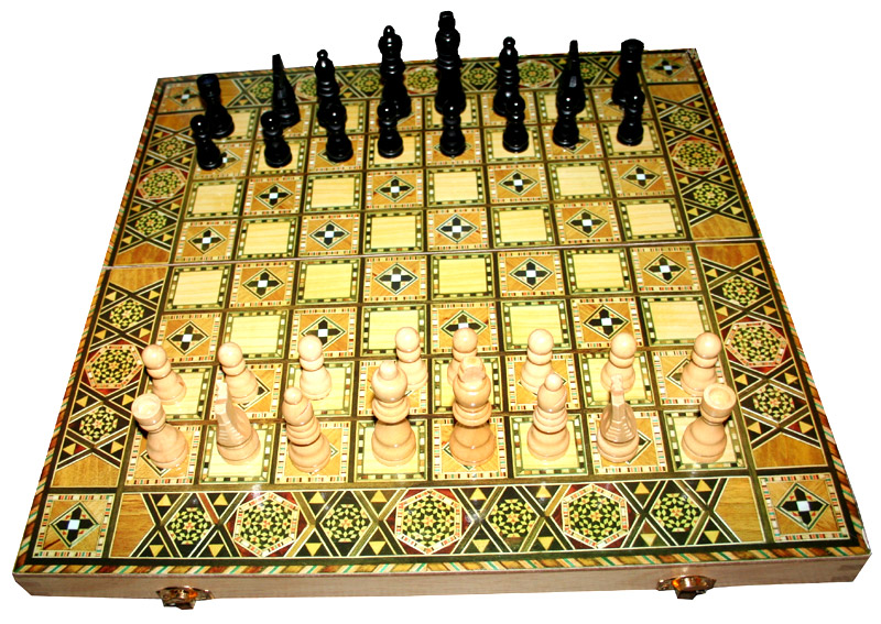 A chess board